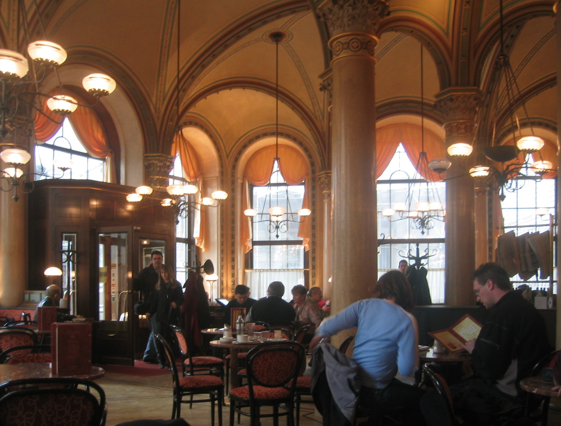 Interior of Café Central in Vienna, Austria.